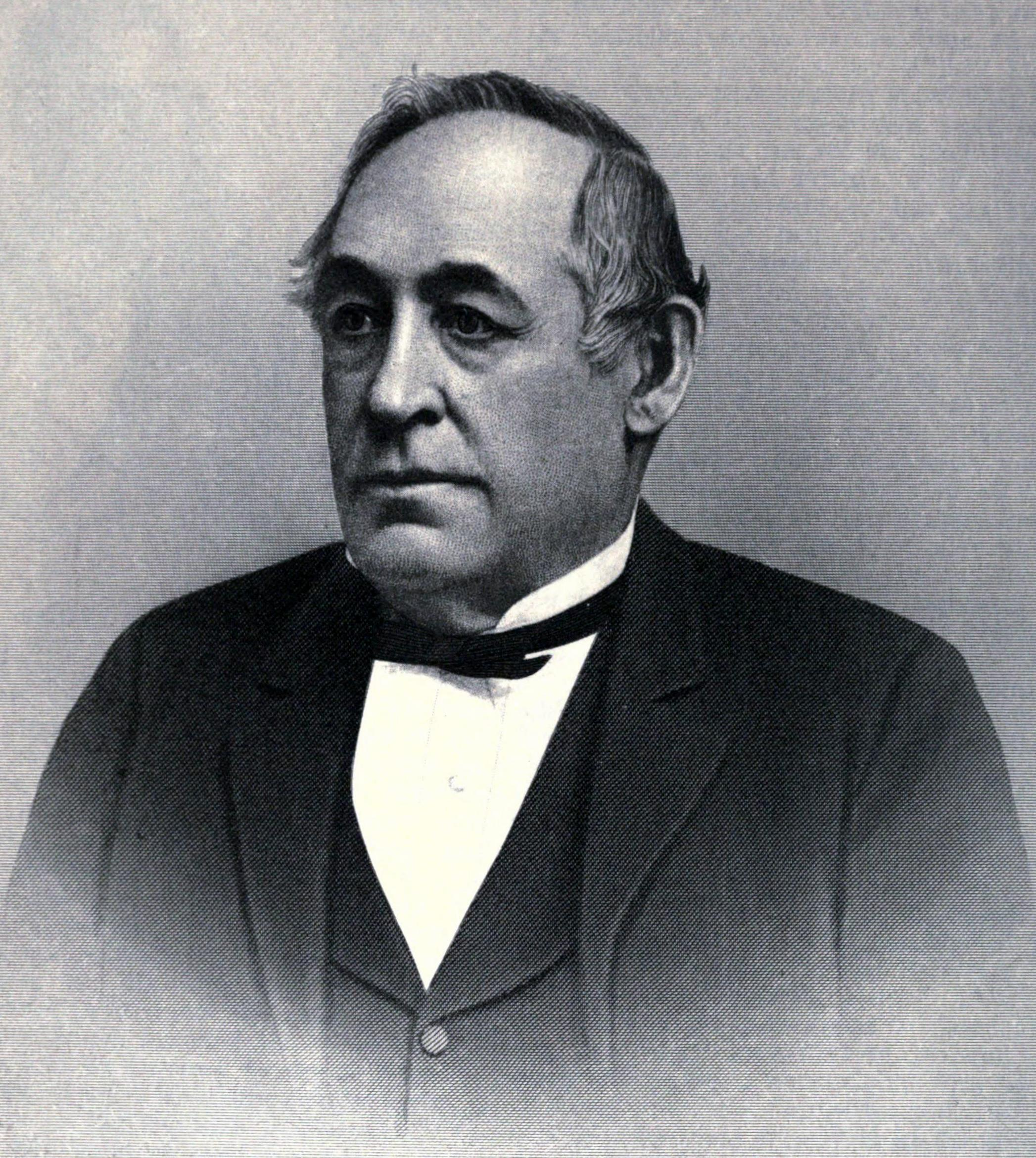 Benjamin Pierce Cheney, founder of American Express Company